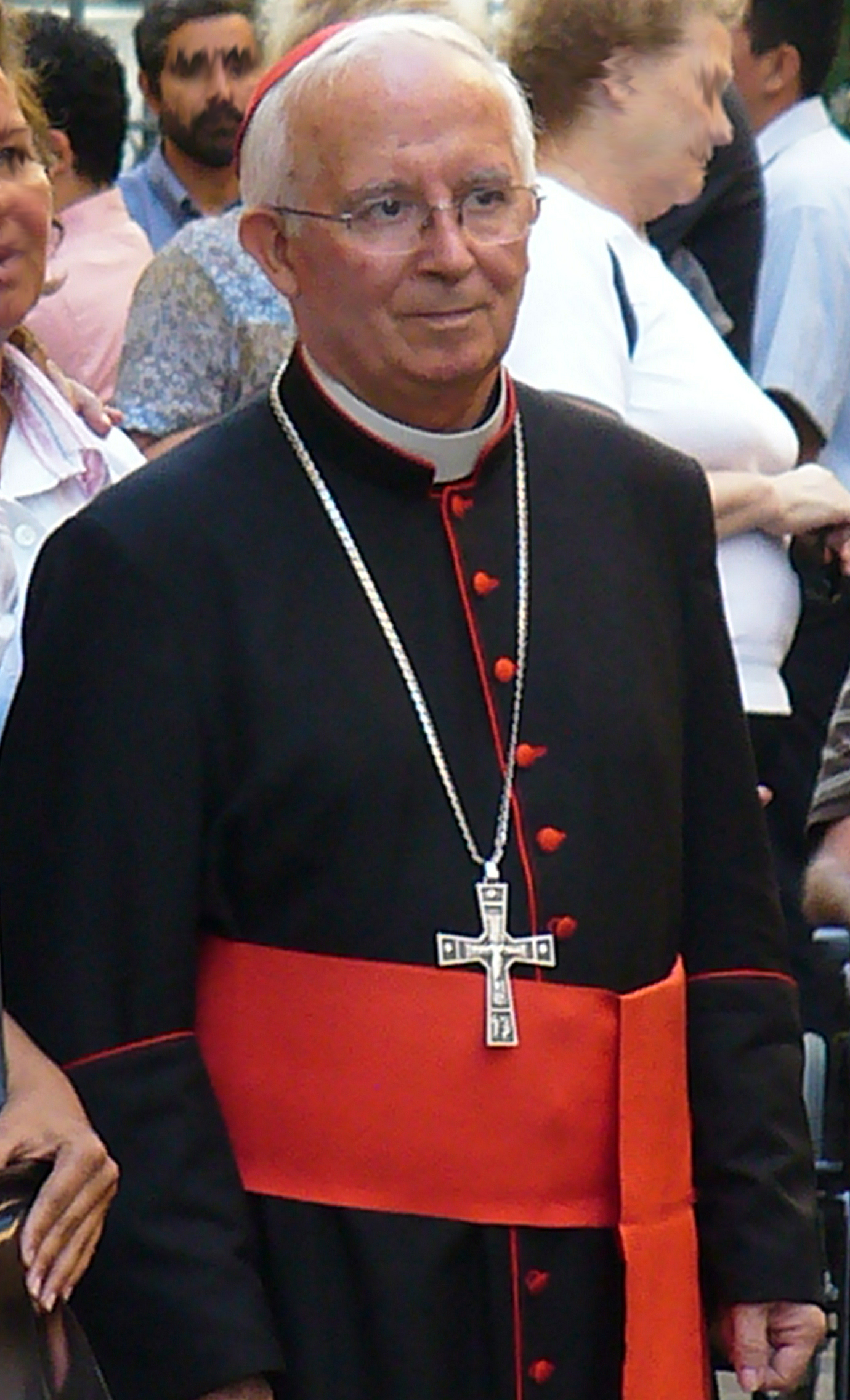 Antonio Cardinal Cañizares Llovera after an audience in the Vatican City State